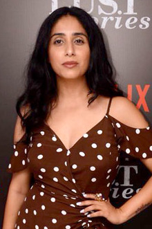 Neha Bhasin grace at the special screening of Lust Stories in 2018.